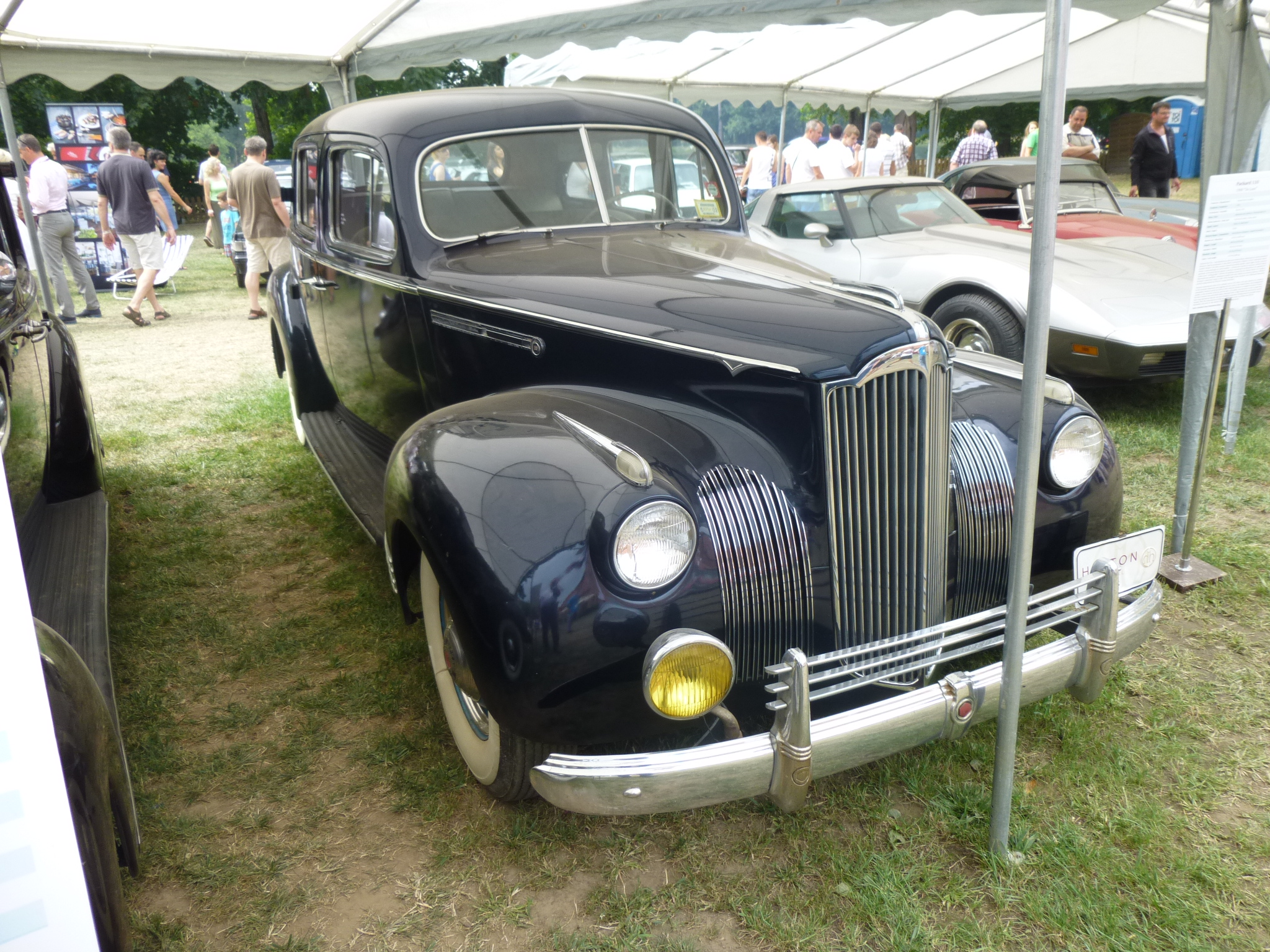 1941 Packard 110 at 2015 Motoclassic Wrocław